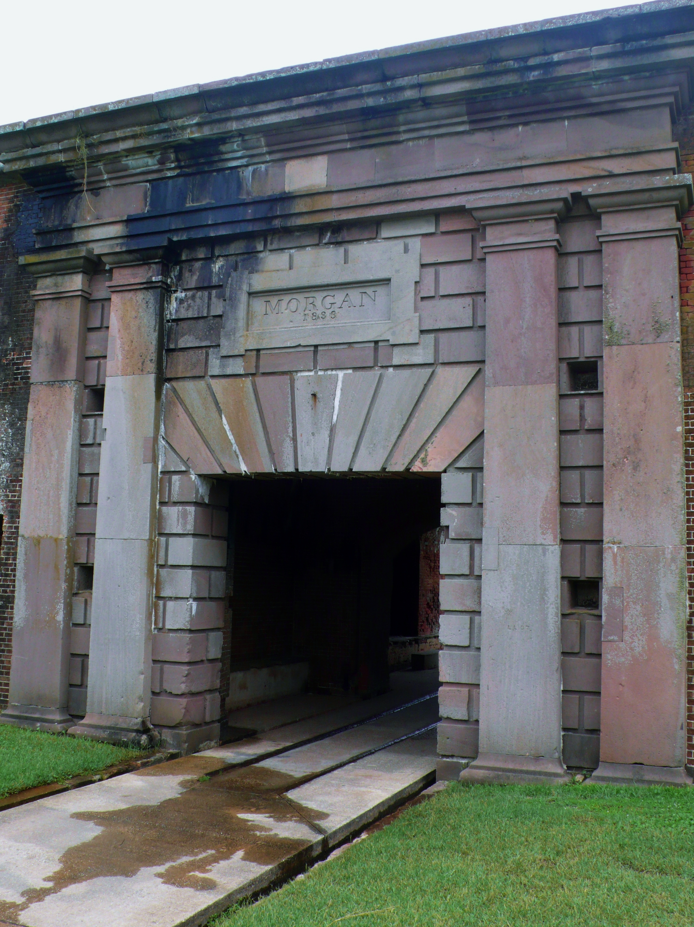 Detail of the entrance to Fort Morgan, on the Gulf of Mexico in southern Baldwin County, Alabama.